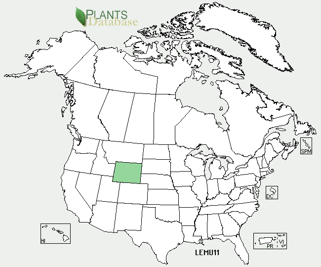 It is a map of the distribution of Leymus Multicaulis in the United States.